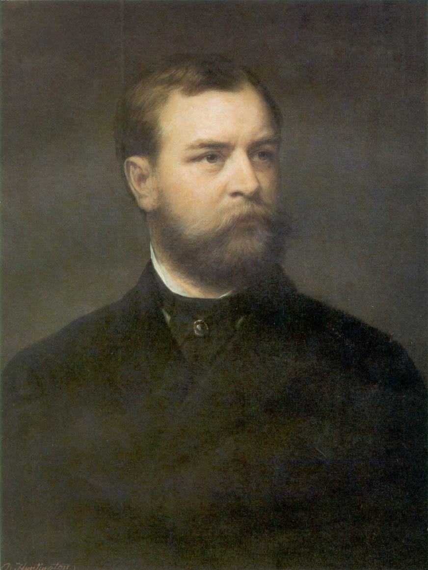 Robert Todd Lincoln